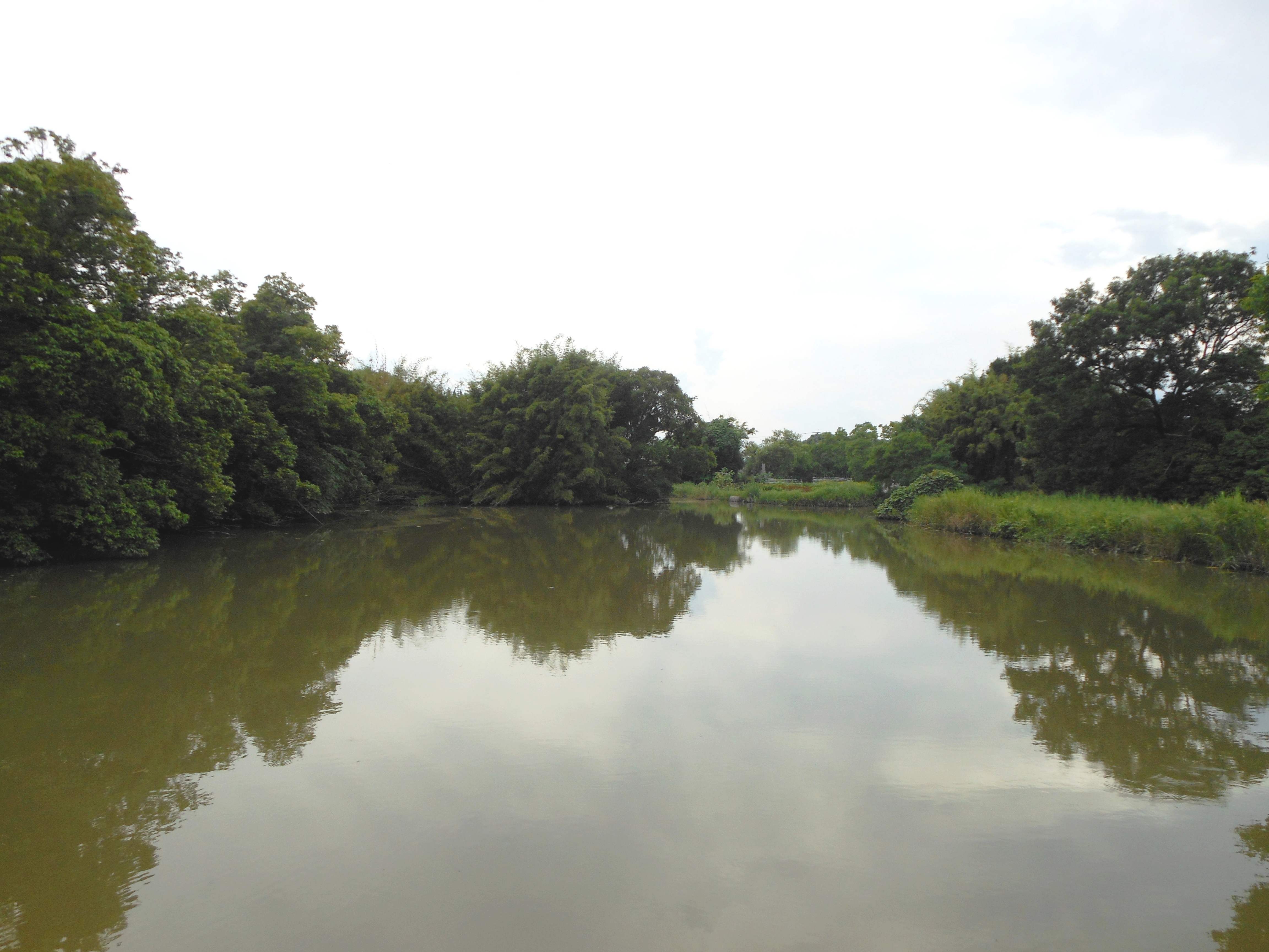 South of Anegawa Castle Ruins, Kanzaki city, Saga prefecture, Japan.